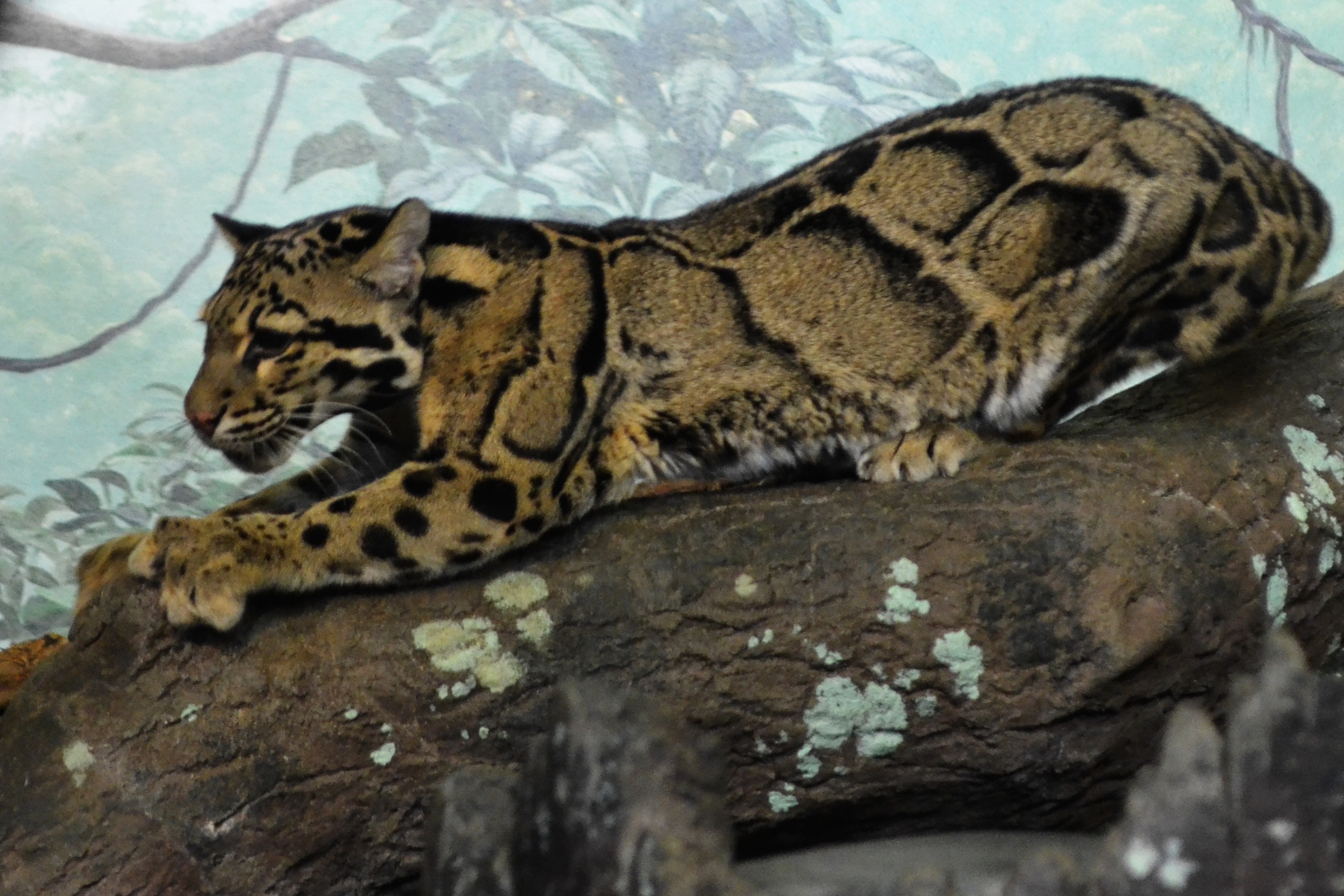 Stretched Out on a Log